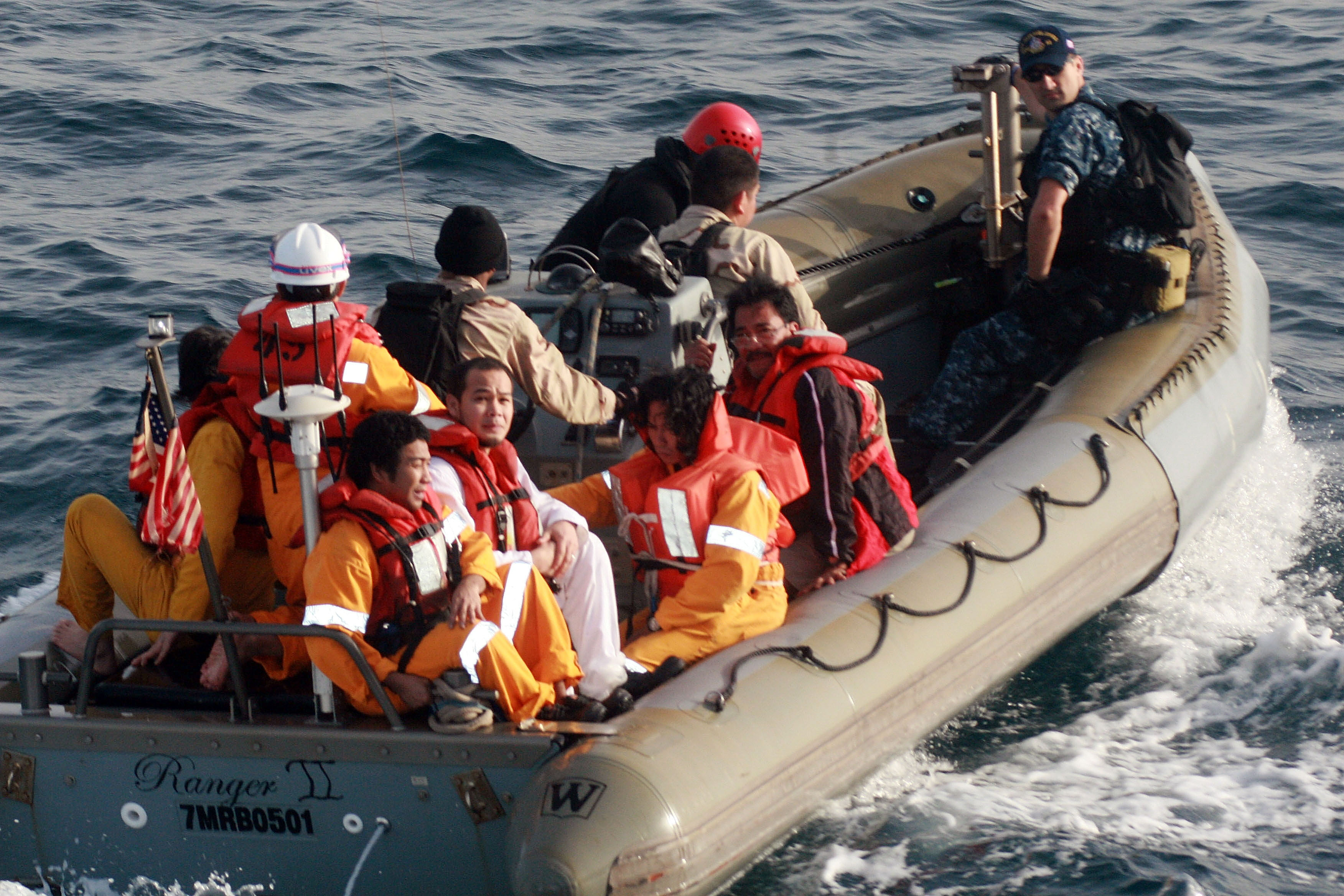 U.S. Navy Ensign Darius Mercer, right, and Sailors assigned to the guided missile destroyer USS John Paul Jones (DDG 53) transfer six rescued Filipino mariners to the cutter USCGC Baranof (WPB 1318) March 15, 2012, in the Persian Gulf . John Paul Jones rescued the mariners when their ship, the Liberian-flagged motor vessel Stolt Valor, caught fire while under way in the Persian Gulf. Baranof transported the rescued mariners to Manama, Bahrain, for repatriation. John Paul Jones was assigned to Combined Maritime Forces Commander, Task Force 152 conducting maritime security operations in the Persian Gulf. Baranof was assigned to Commander, Task Force 55 and U.S. Coast Guard Patrol Forces Southwest Asia supporting maritime security operations and theater security cooperation in the U.S. 5th Fleet area of responsibility. Source: Personal Injury Lawyers South Bend Indiana